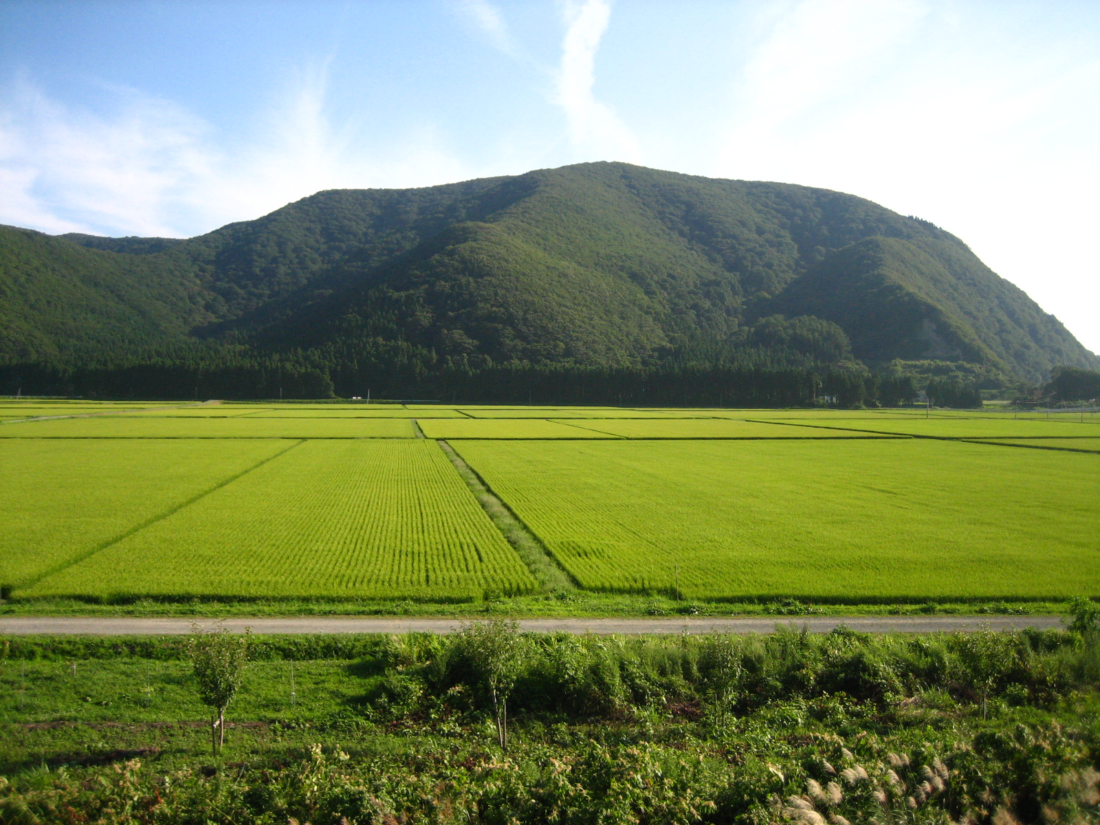 Rice Paddies near Lake Inawashiro in Fukushima Prefecture, Japan. Picture was taken with a Canon Power Shot SD450 Digital Elph camera and modified using a Paint Shop program on a laptop computer.